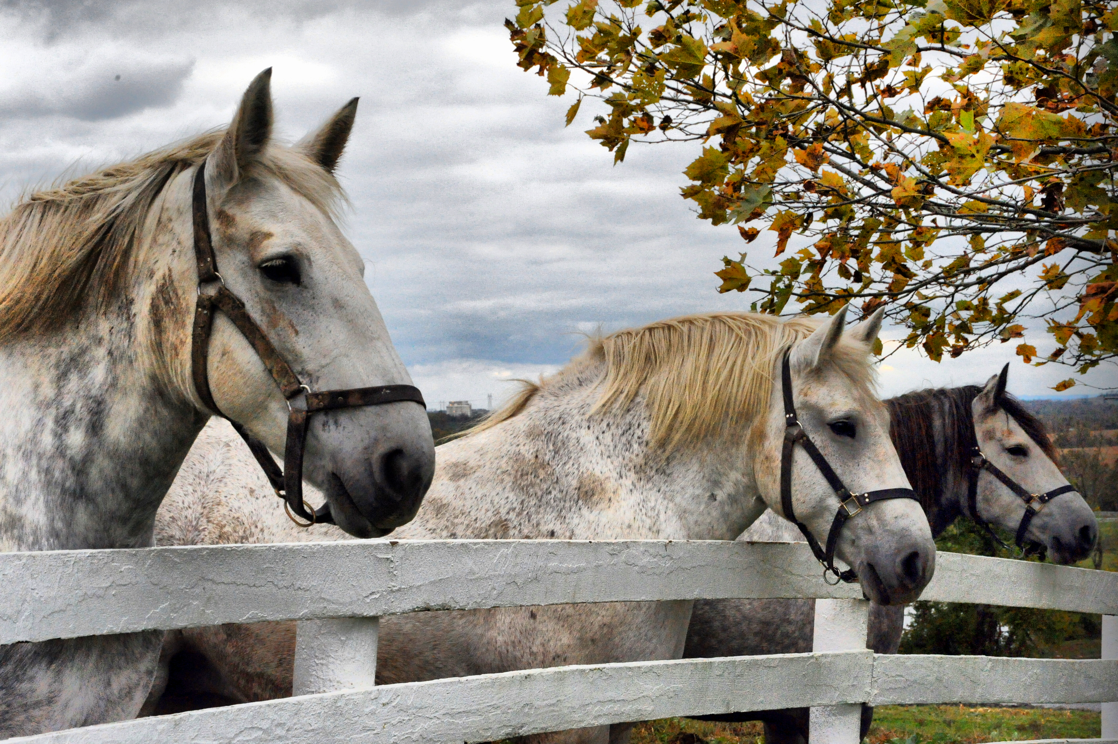 Percheron Draft Horses at the Shaker Village at Pleasant Hill. Near Harrodsburg, KY